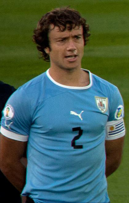 Diego Lugano against Chile 2011-11-11